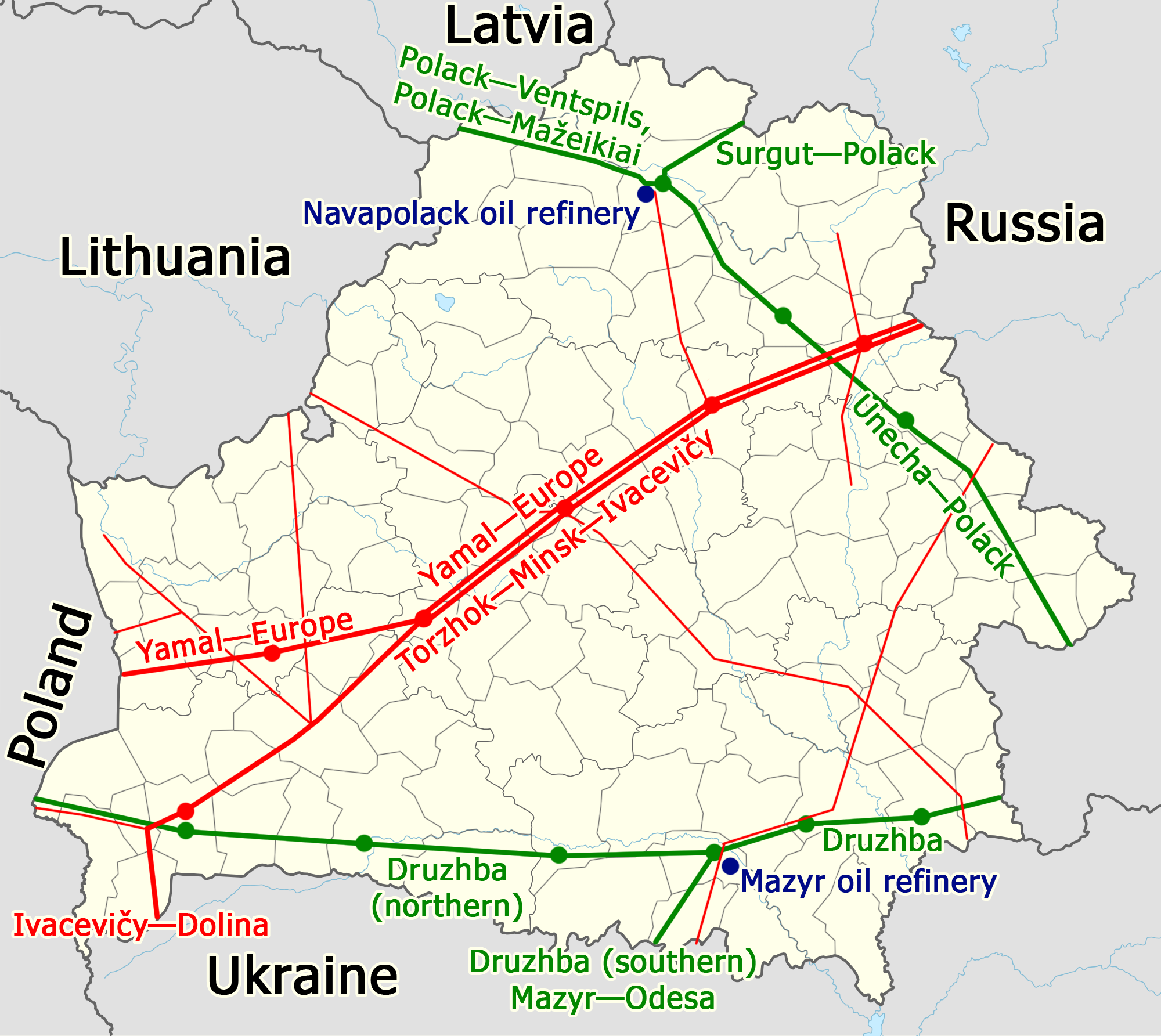 Major gas (red) and oil (green) pipelines in Belarus. Oil refineries are signed in dark blue